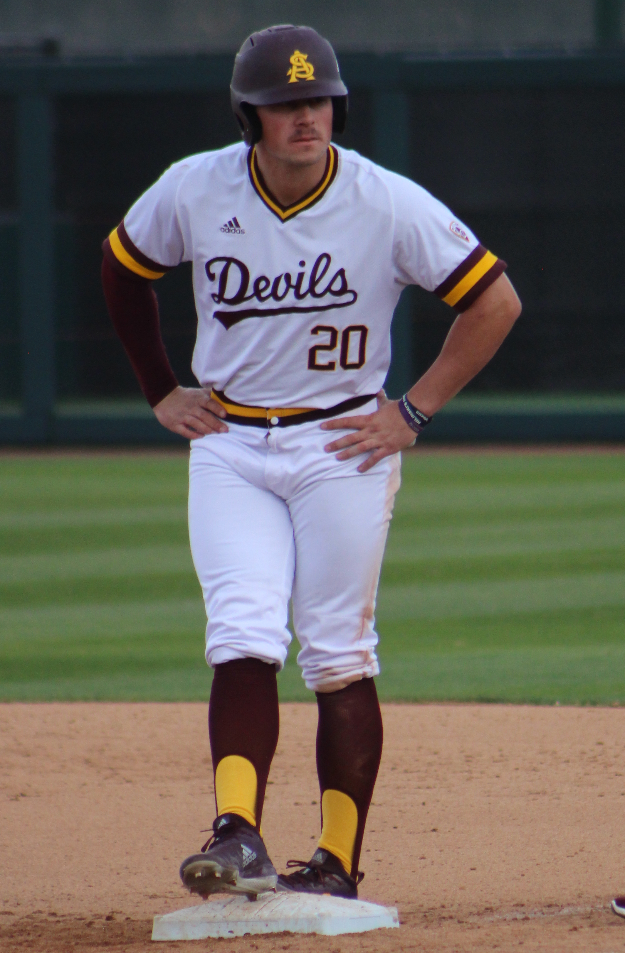 2019 Pre-Season All-American Spencer Torkelson looks into the dugout.